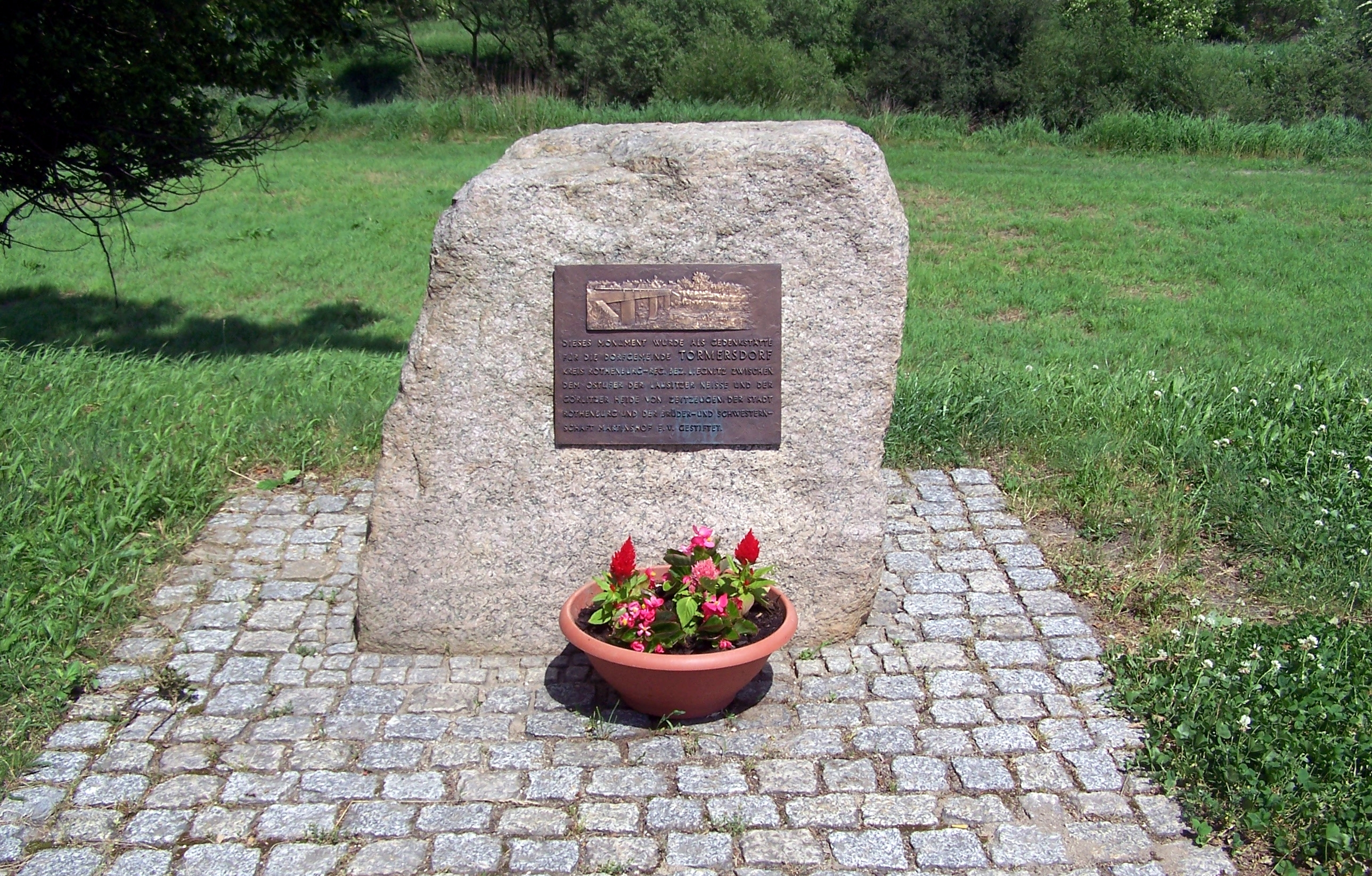 Memorial stone for the destroyed village Tormersdorf (Prędocice) at the Tormersdorfer Allee in Rothenburg